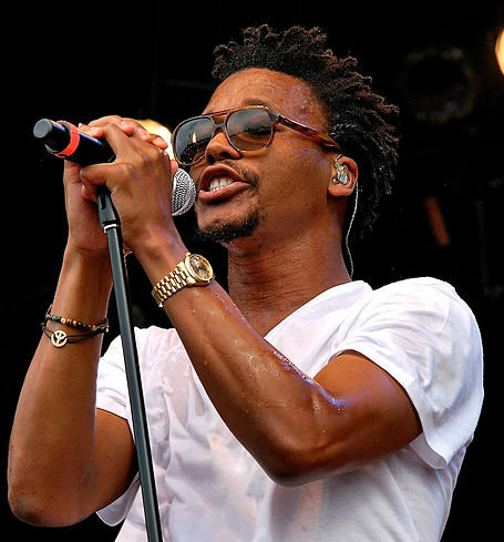 Lupe Fiasco performing on July 17, 2011